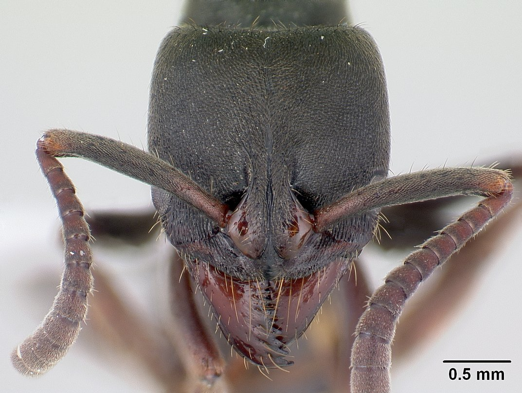 Head view of ant Pachycondyla harpax specimen casent0178687.